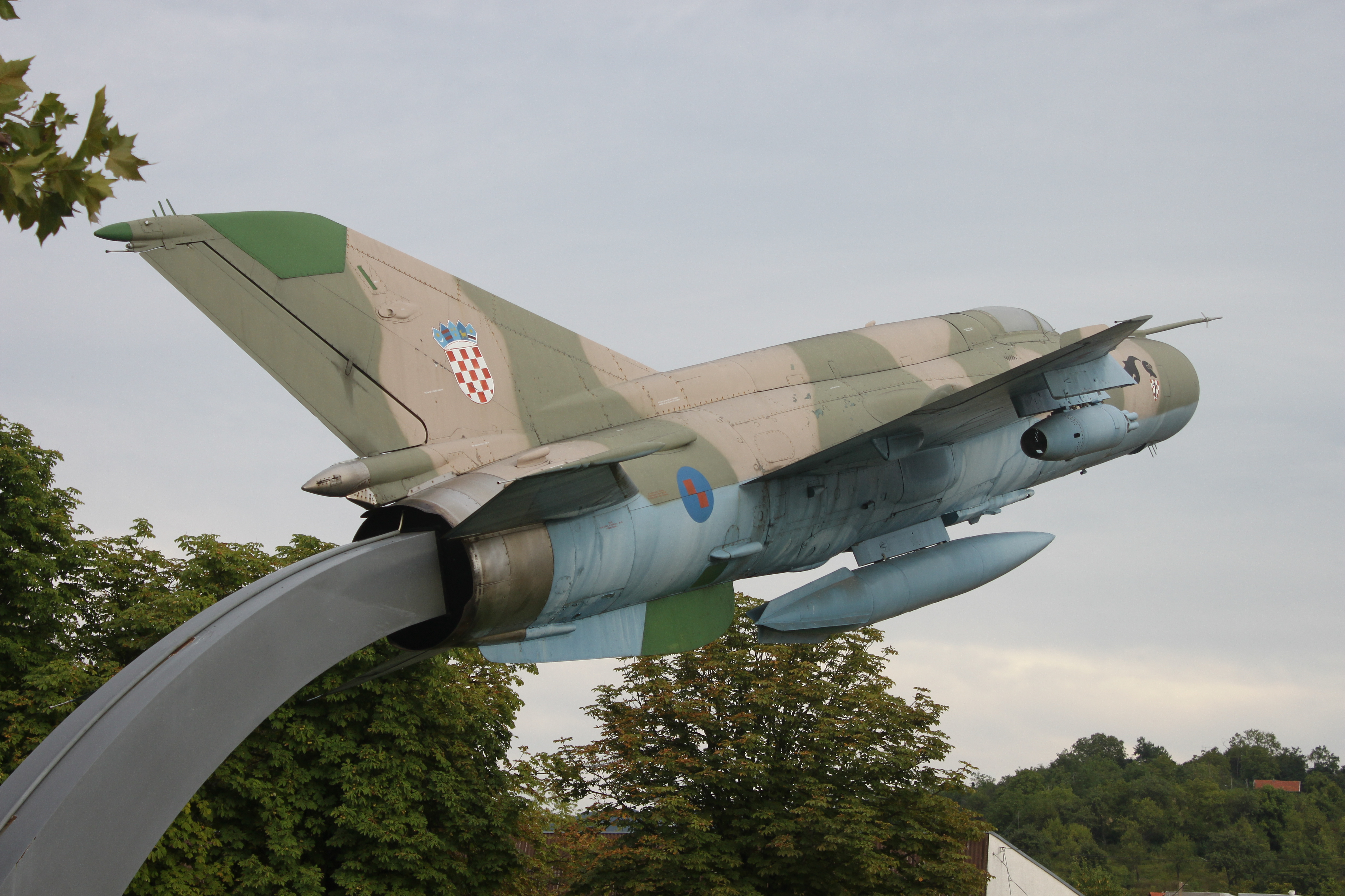 On October 25, 1991 Rudolf Perešin, a pilot with the Yugoslav AF defected with his MiG-21 bis from Bihać, Bosnia, to Klagenfurt Austria to prevent his jet being used against Croats by the Bosnian Serbs. To commemorate the event this MiG is preserved in the place of his birth, Gornja Stubica.